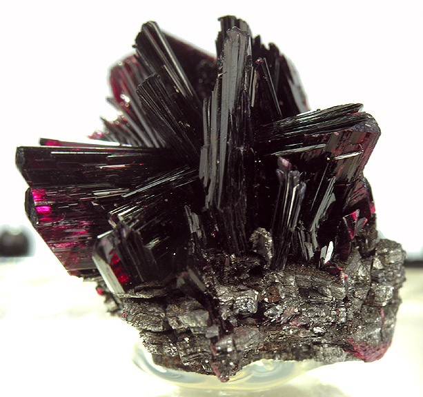 Erythrite Locality: Bou Azzer, Bou Azzer District, Tazenakht, Ouarzazate Province, Souss-Massa-Draâ Region, Morocco (Locality at ) Size: 2.7 x 2.2 x 2.0 cm. This piece features dozens of sharp, highly lustrous, translucent, rich rose-plum colored erythrite crystals in a beautiful “flower”-like spray.